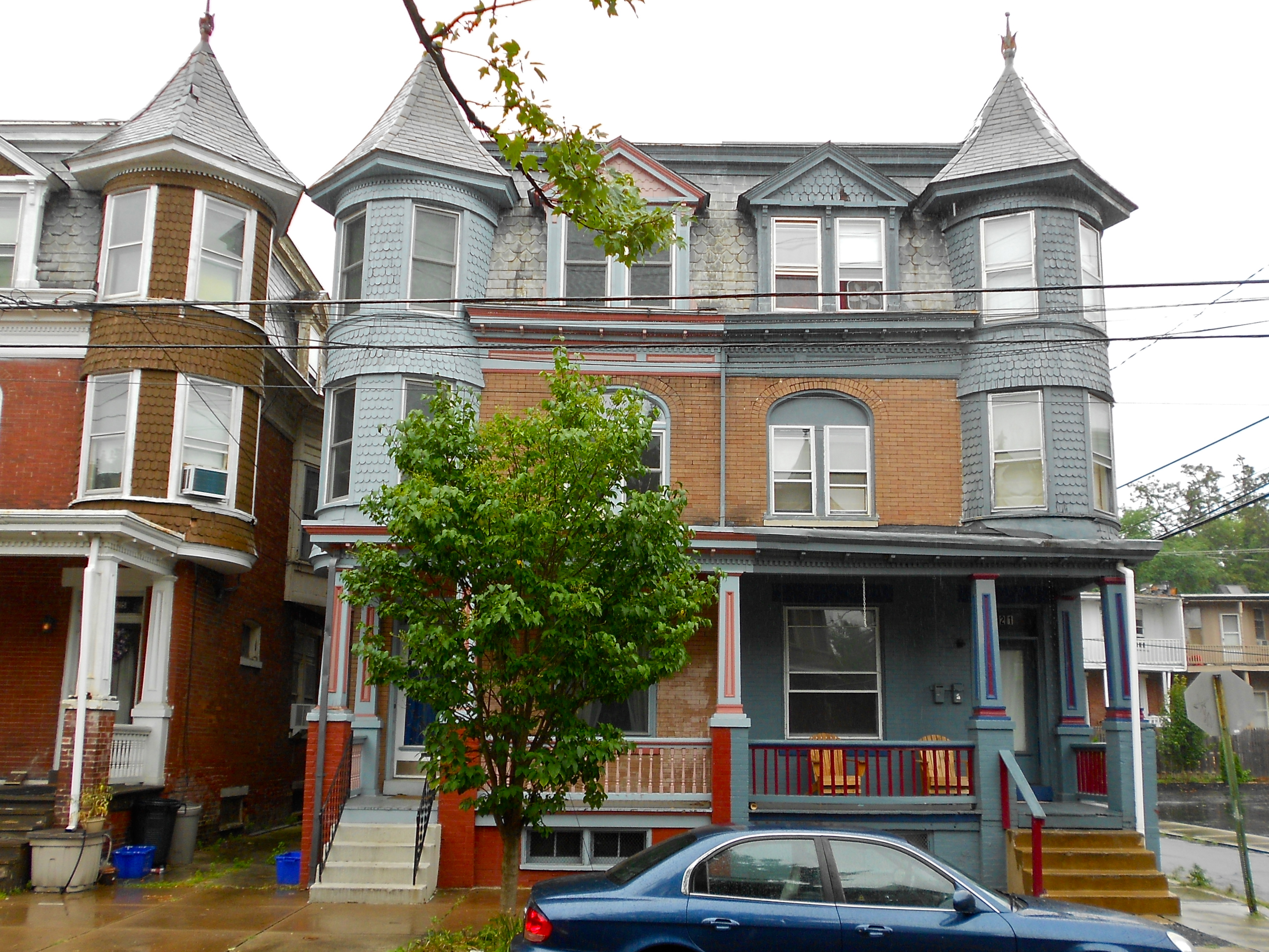 Old Uptown Harrisburg Historic District, which is roughly bounded by McClay, North 3rd, Reily, North 2nd, and Calder in Harrisburg, Dauphin County, Pennsylvania. Listed on the NRHP on 1990-01-04